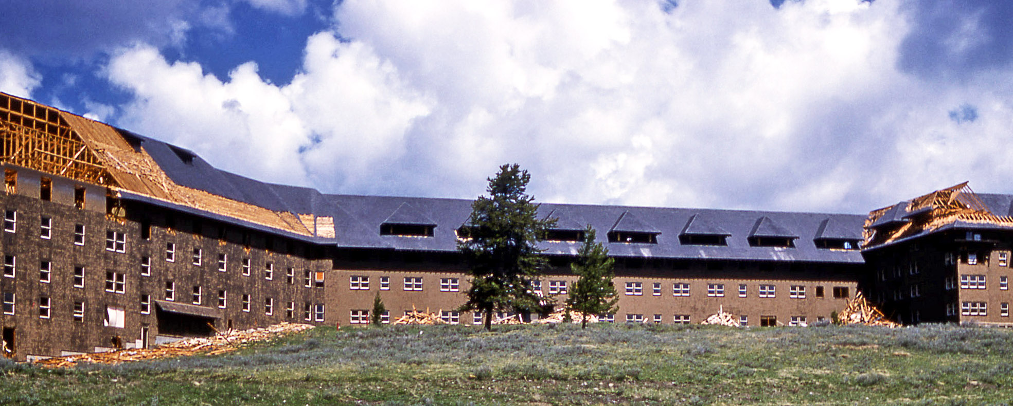 Demolition of the Canyon Hotel, Yellowstone National Park, Wyoming, USA, 1960. Original NPS slide rotated, cropped, color and exposure corrected.